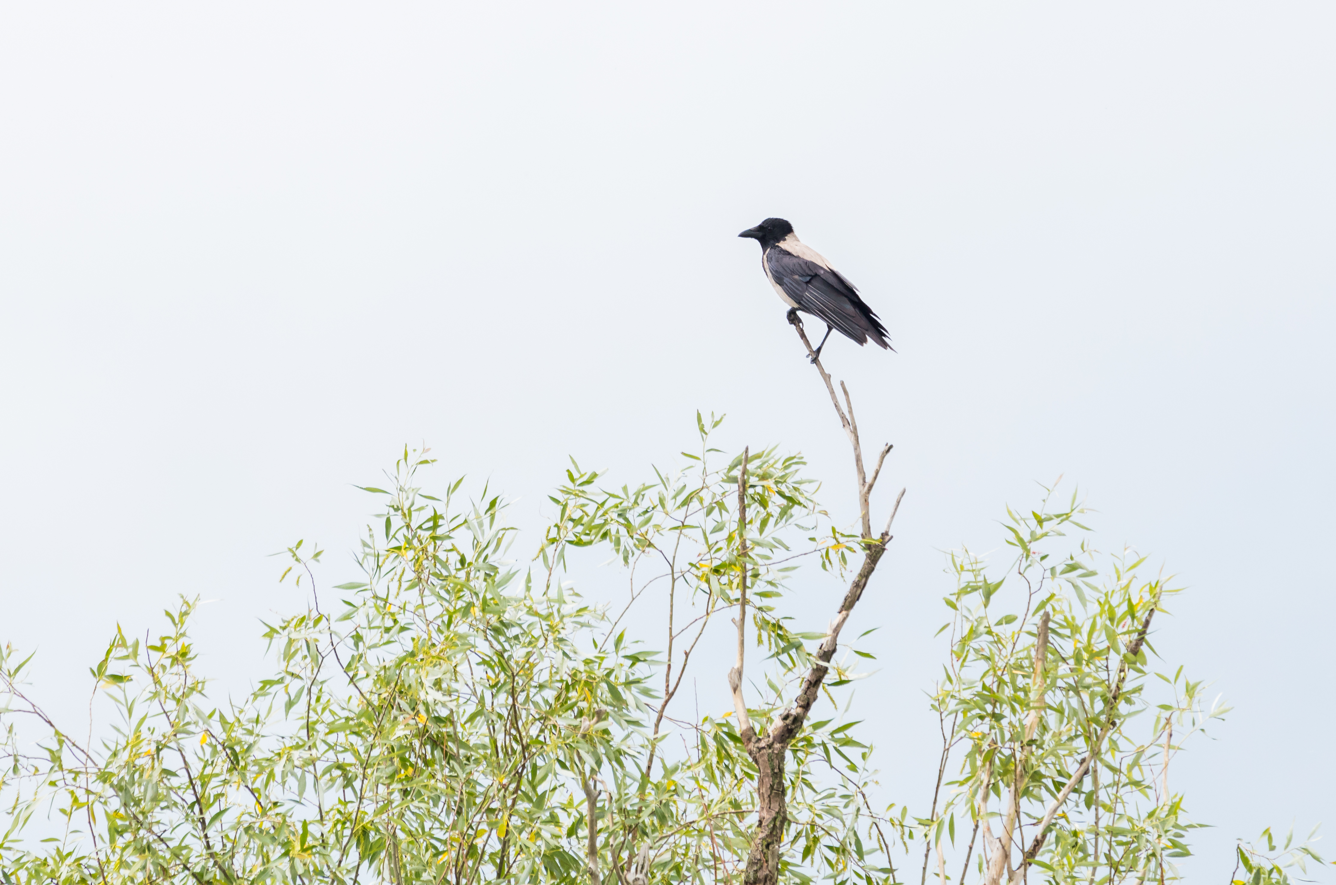 Hooded crow (Corvus cornix), Danube Delta, Romania